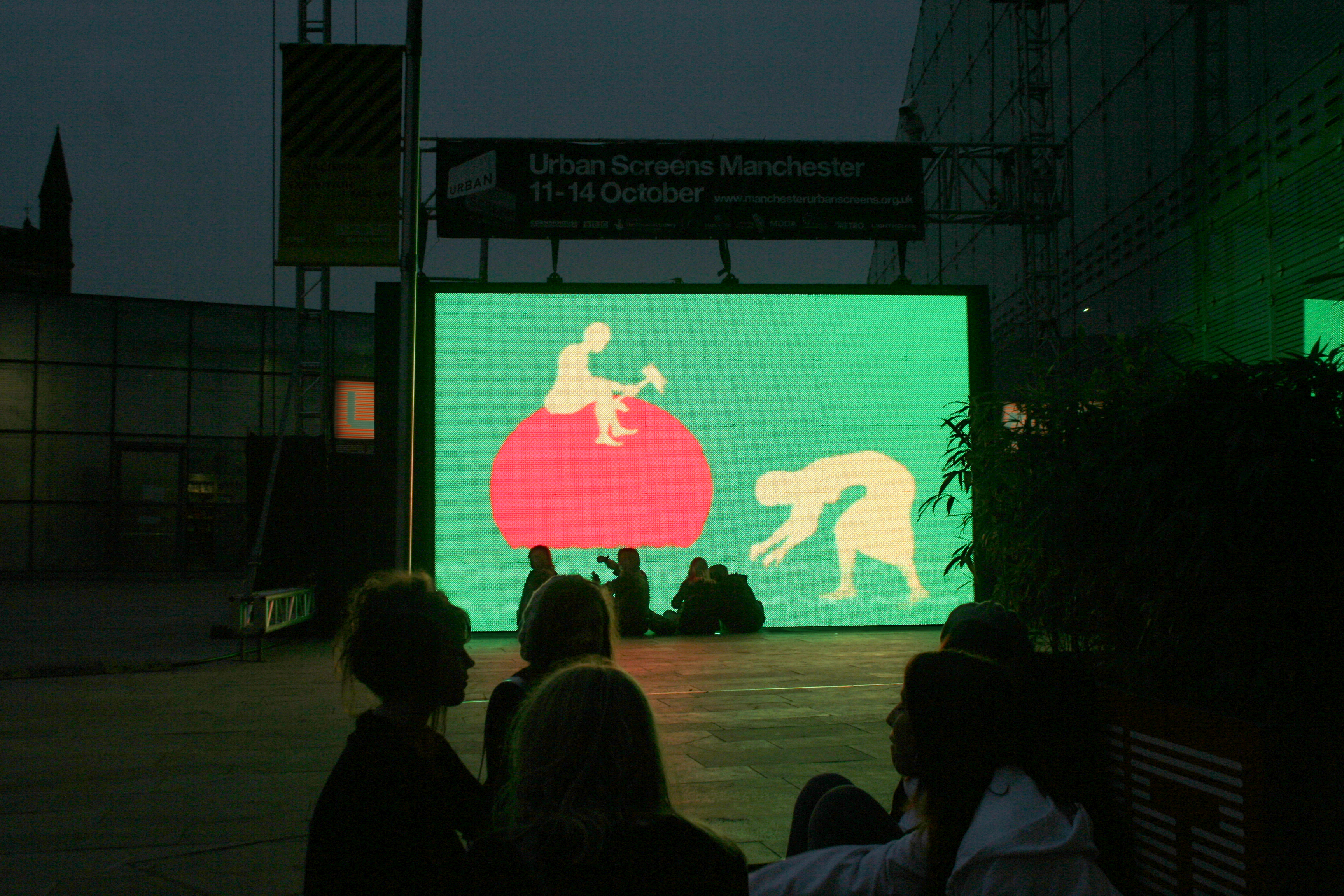 Urban Screens Conference + Public Art Events, Manchester, UK, Oct. 2007: Flag Metamorphoses on temporary LED screen at Cathedral Gardens, with young, spontaneously reacting audience.